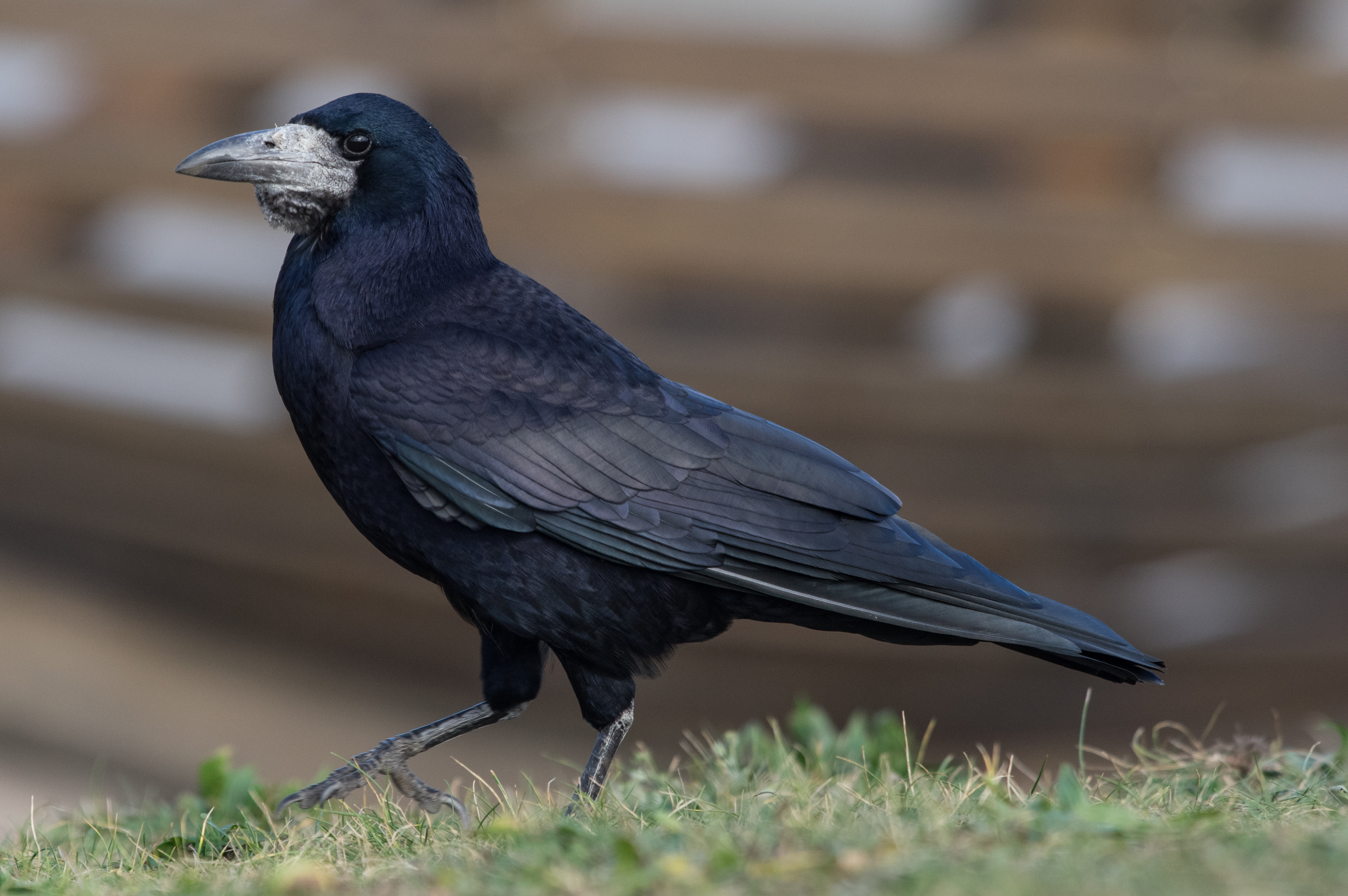 Rook (Corvus frugilegus)